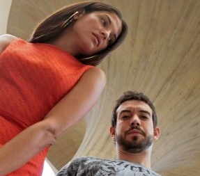 Foto de los actuales integrantes del grupo español La Quinta Estación